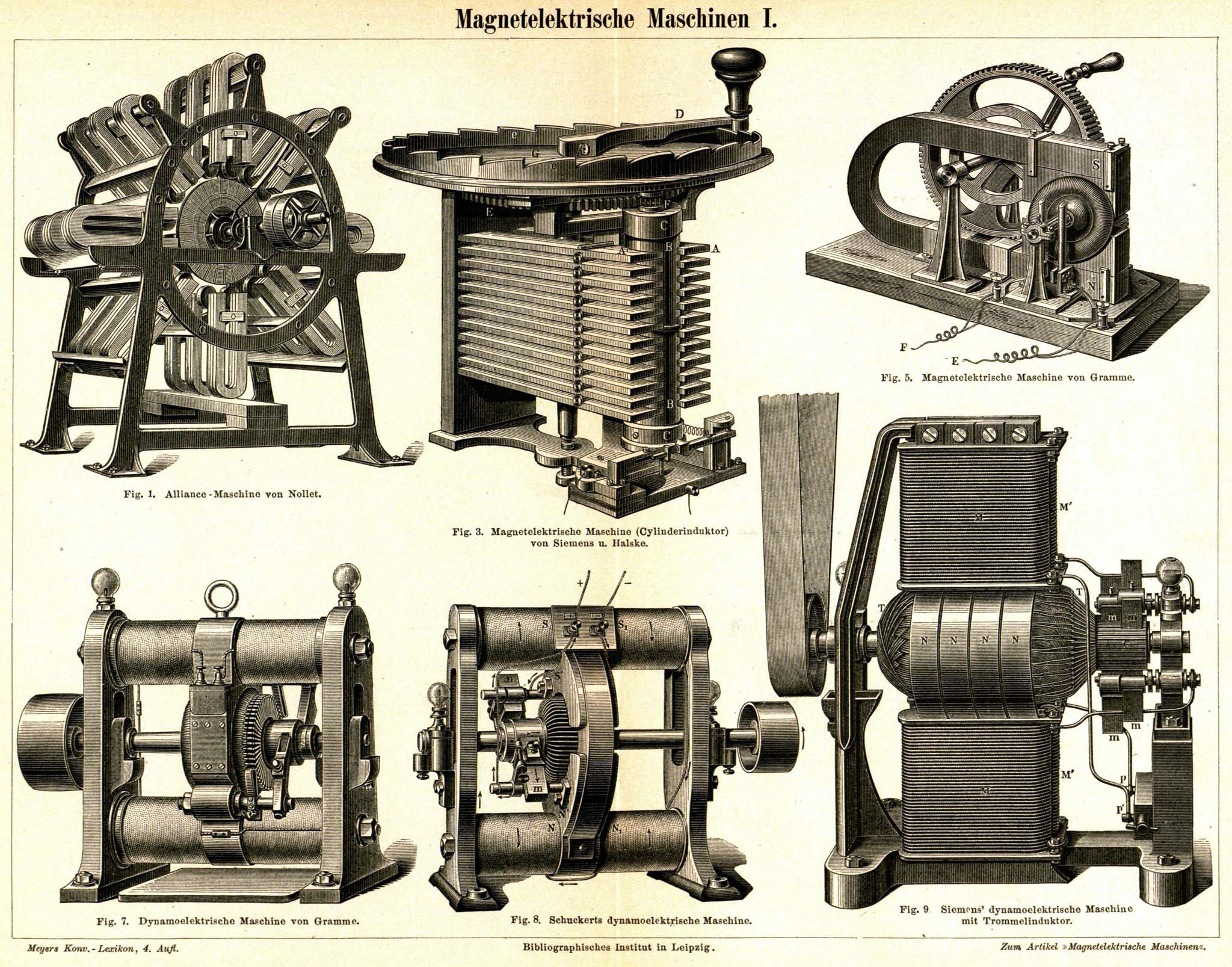 Early electric motors I.